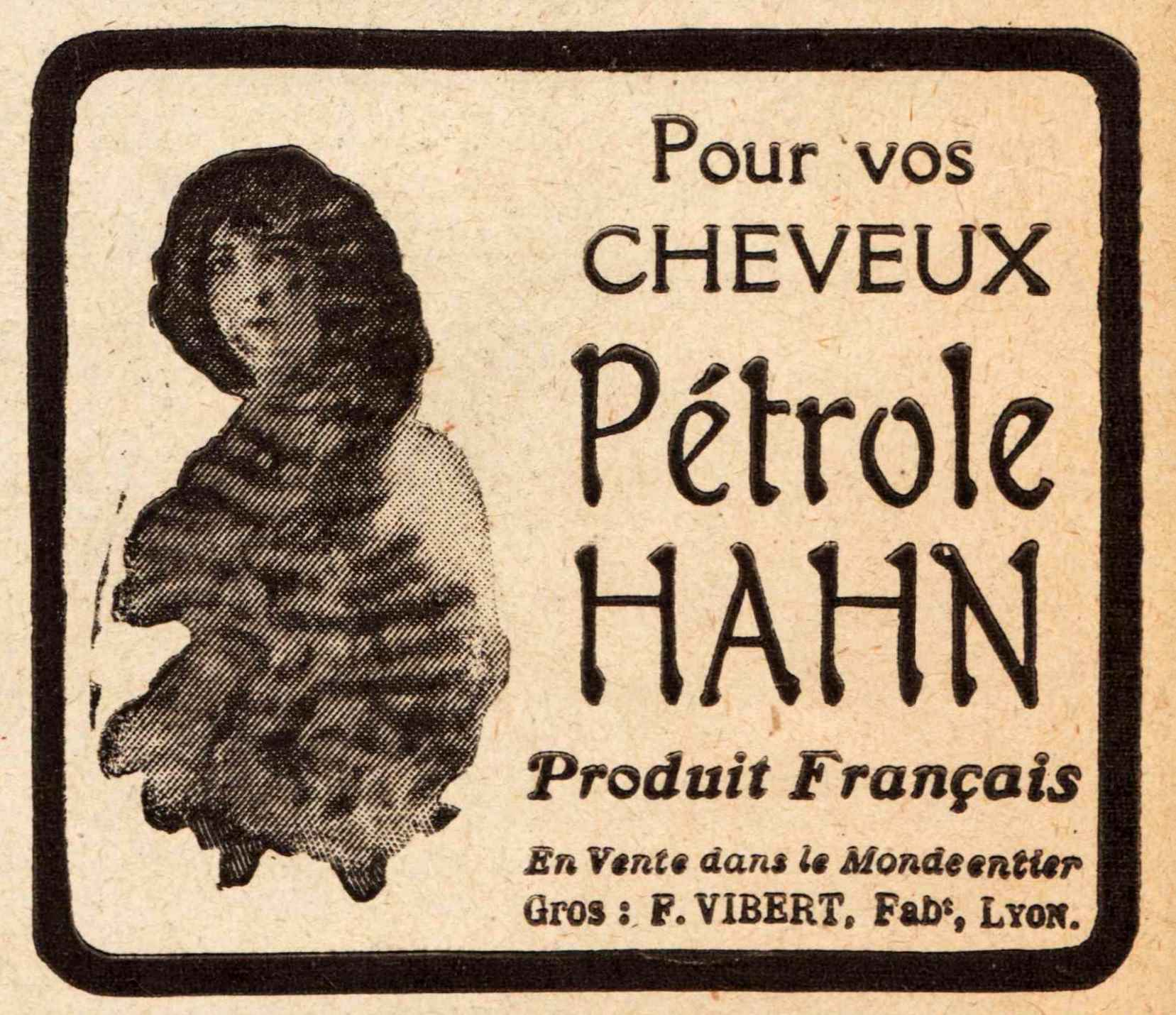 Scan of L'ILLUSTRATION 9 Ferviers 1918 Annonces page 2